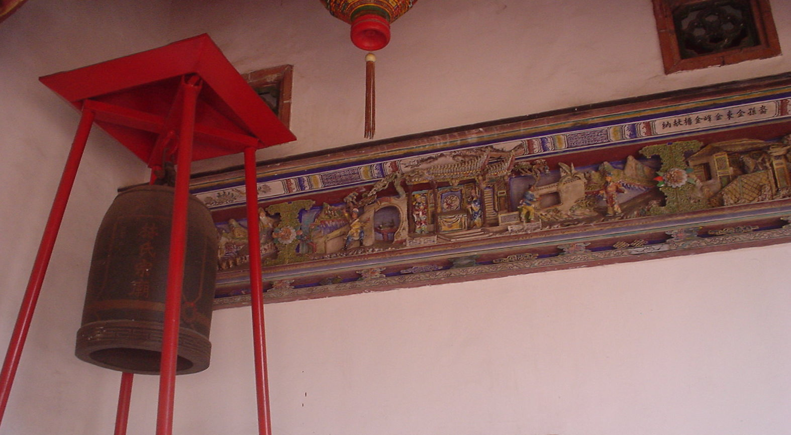 This shows some of the woodwork along with the traditional bell at the Lin Family Shrine in Taichung City, Taiwan. Photo taken on October 12, 2006.